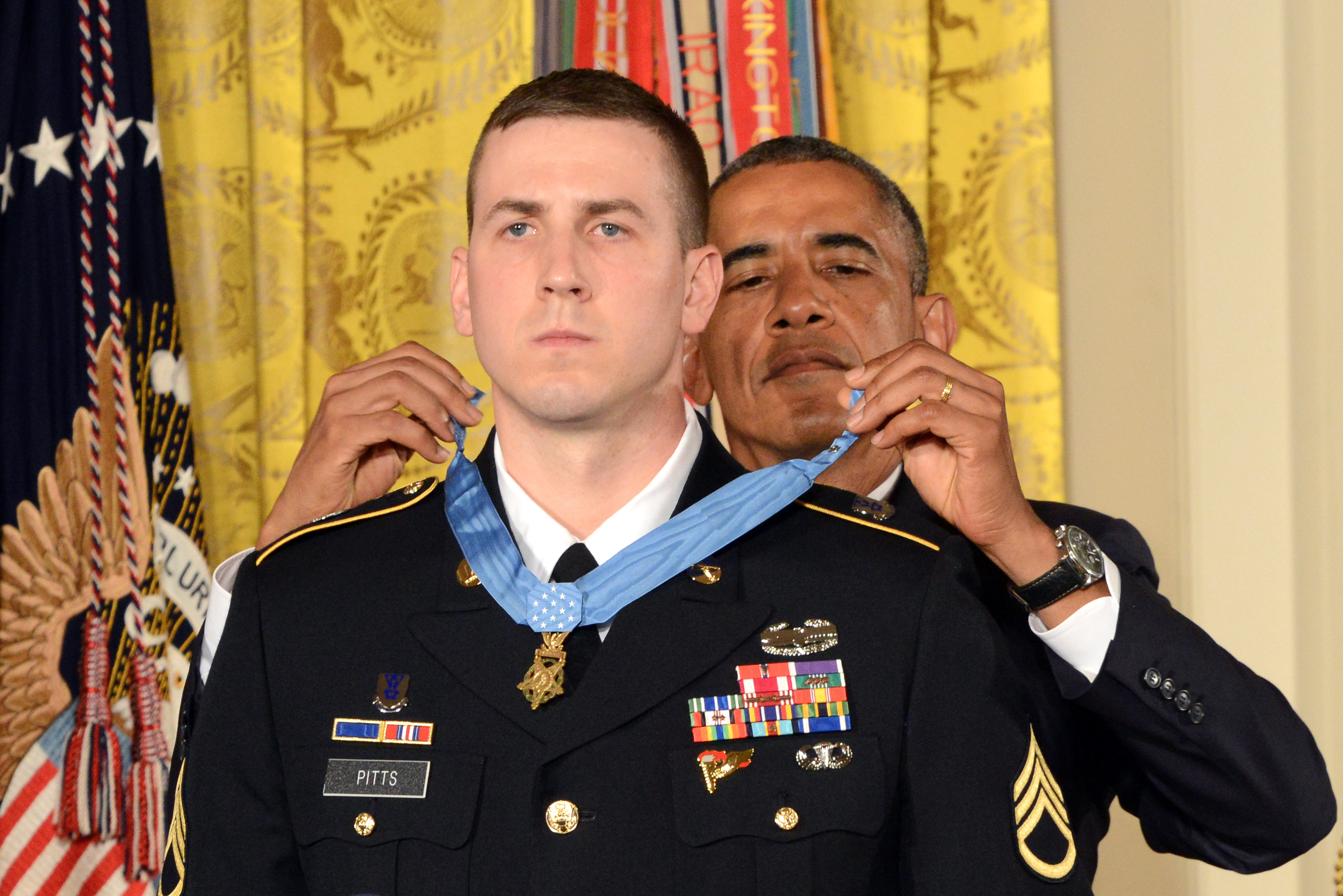 President Barack Obama awards the Medal of Honor to former U.S. Army Staff Sgt. Ryan M. Pitts, the White House, Washington, D.C., July 21, 2014. Pitts received the nation's highest military honor for his actions in 2008 in Wanat, Afghanistan, with 2nd Platoon, Chosen Company, 2nd Battalion (Airborne), 503rd Infantry Regiment, 173rd Airborne Brigade. (Army News Service photo by Lisa Ferdinando)